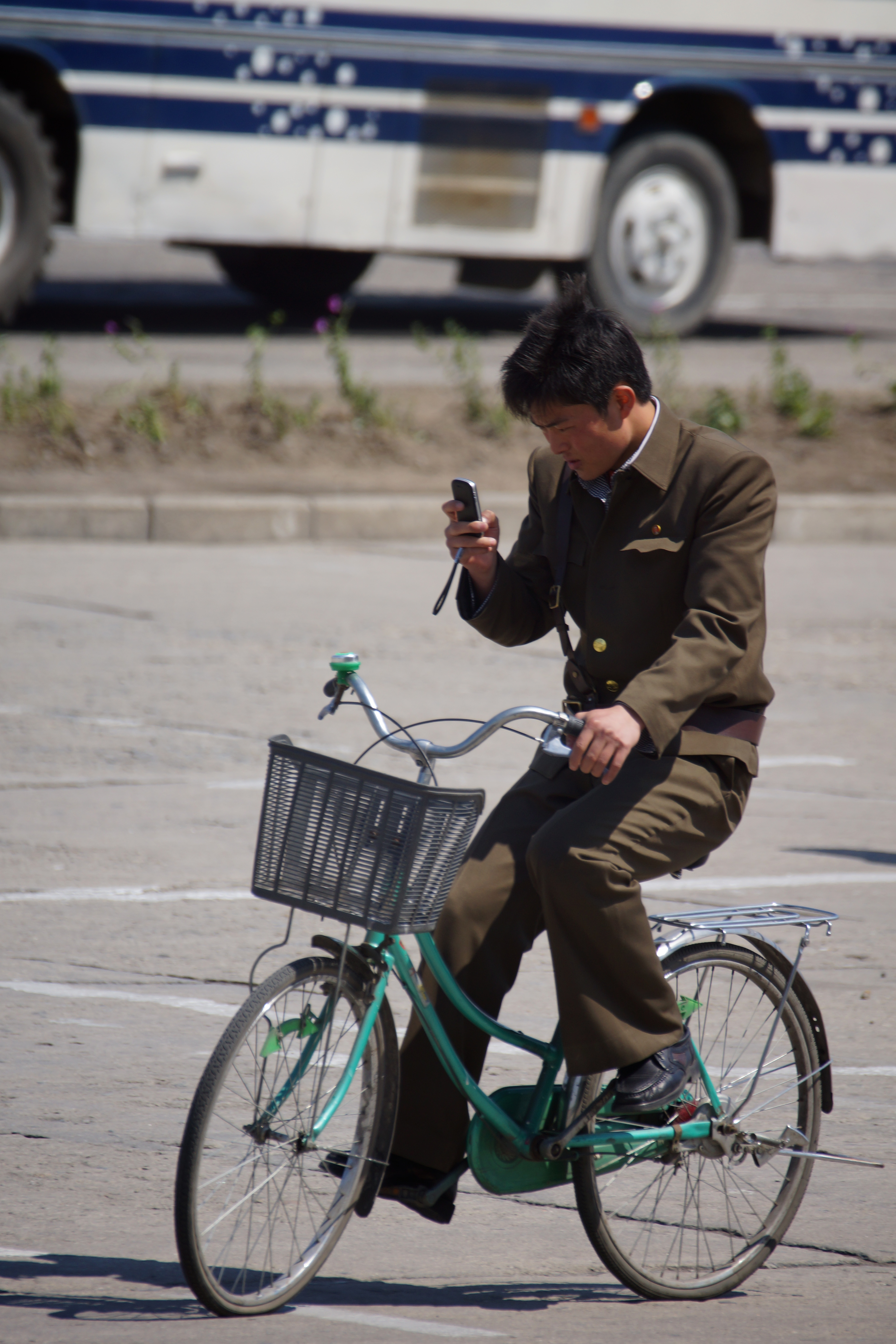 Cyclist uses a cellphone in Hamhung